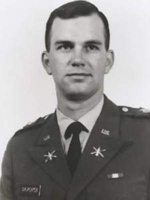 West Point photo of Captain Allen Ross Culpepper (1944-1969)